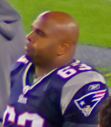 New England Patriots players on sideline during preseason game vs. Tennessee Titans. See w:2007 New England Patriots season#Opening_training_camp_roster